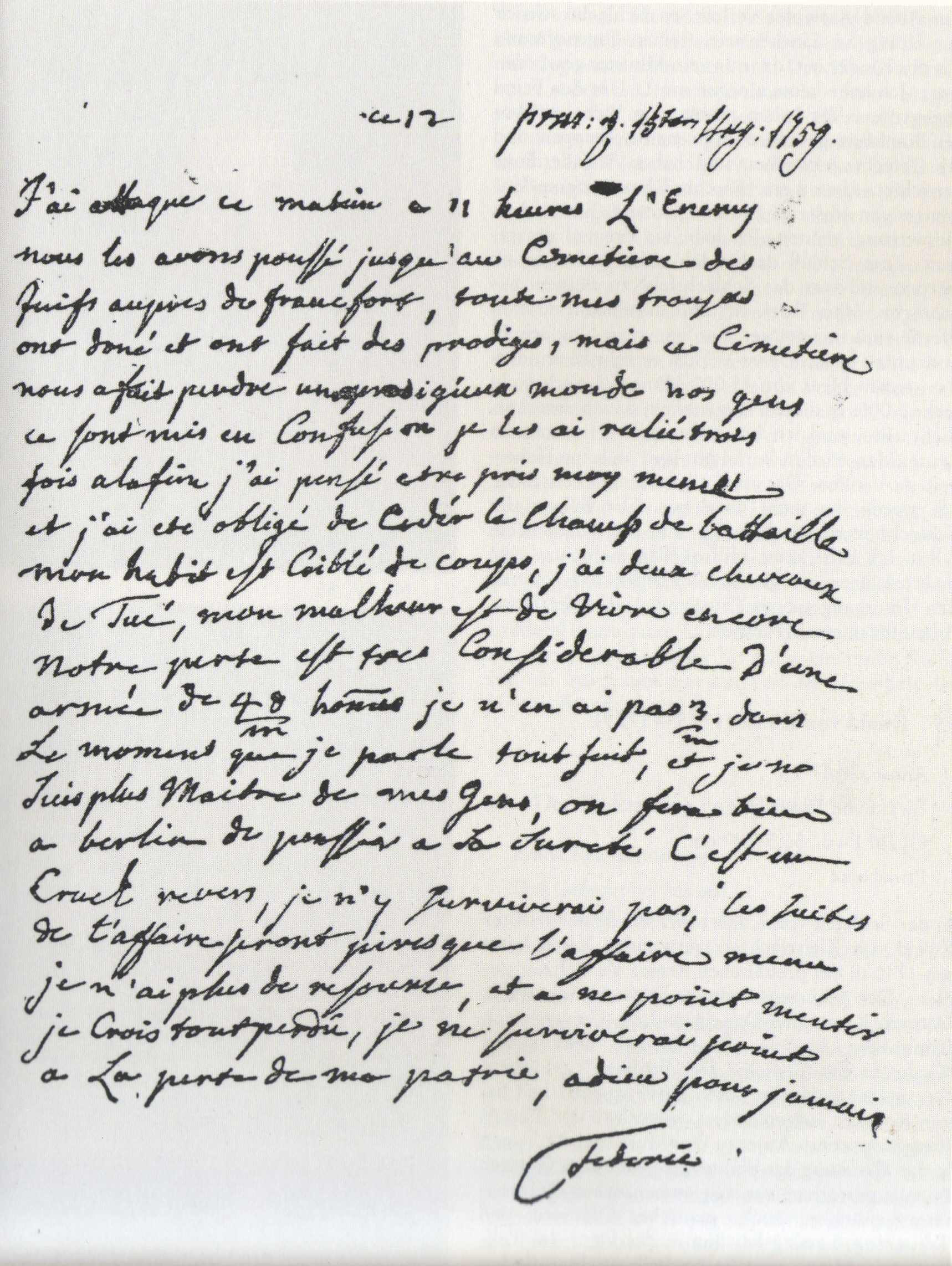 Letter of Frederick the Great